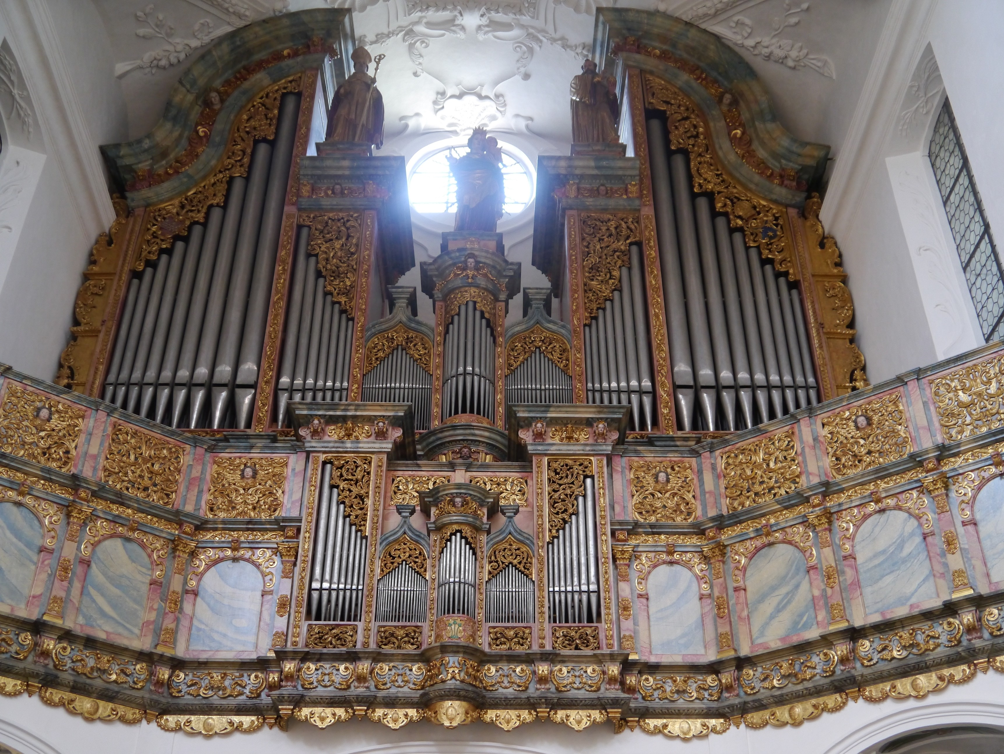 Organ of Muri Abbey Church, Muri, Canton of Aargau, Northern Switzerland